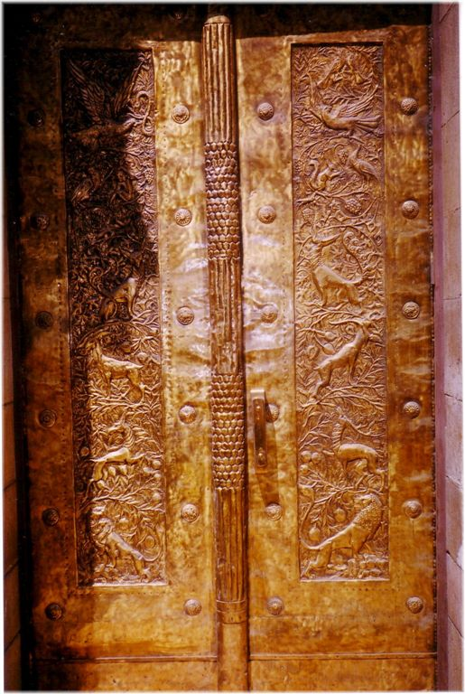 doors of entrance of Bikur Choliem Hospital in Jerusalem